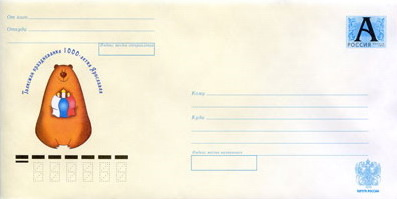 Talisman of 1000 celebrate anniversary of Yaroslavl